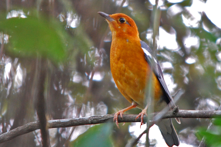 Orange Headed Ground Thrush Z. c. citrina sub-species at IIT campus,Chennai